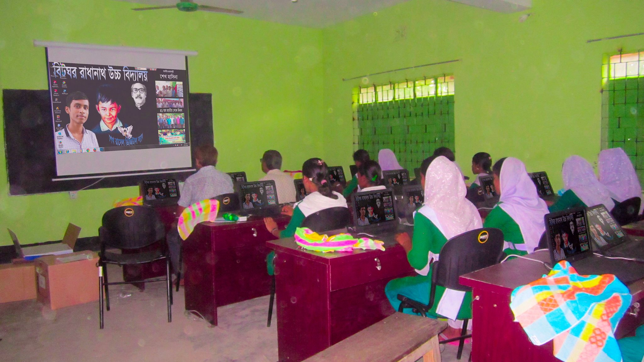 Bitghar School Lab